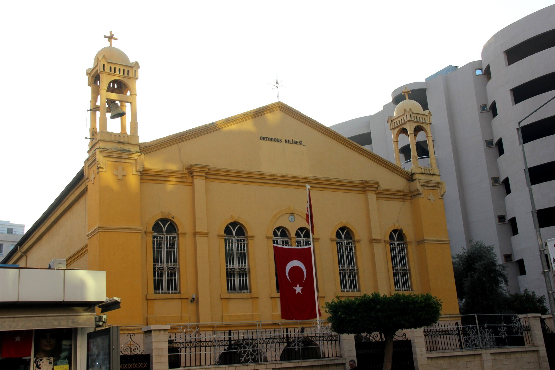 Saint Nicolas orthodox church in Iskenderun